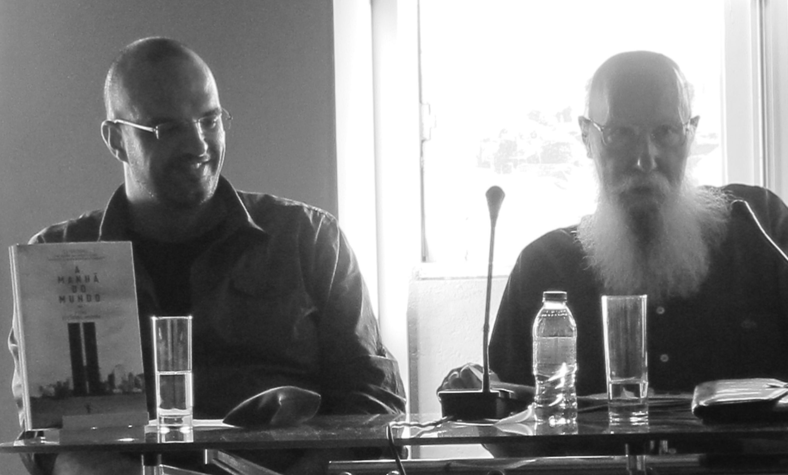 portuguese writer Pedro Guilherme-Moreira (behing the book) and Professor Pinto da Costa in the release of the book "A manhã do mundo" on July 10th 2011